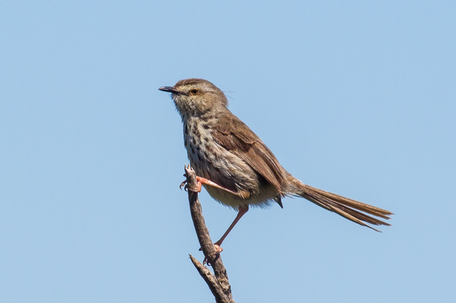 Cropped